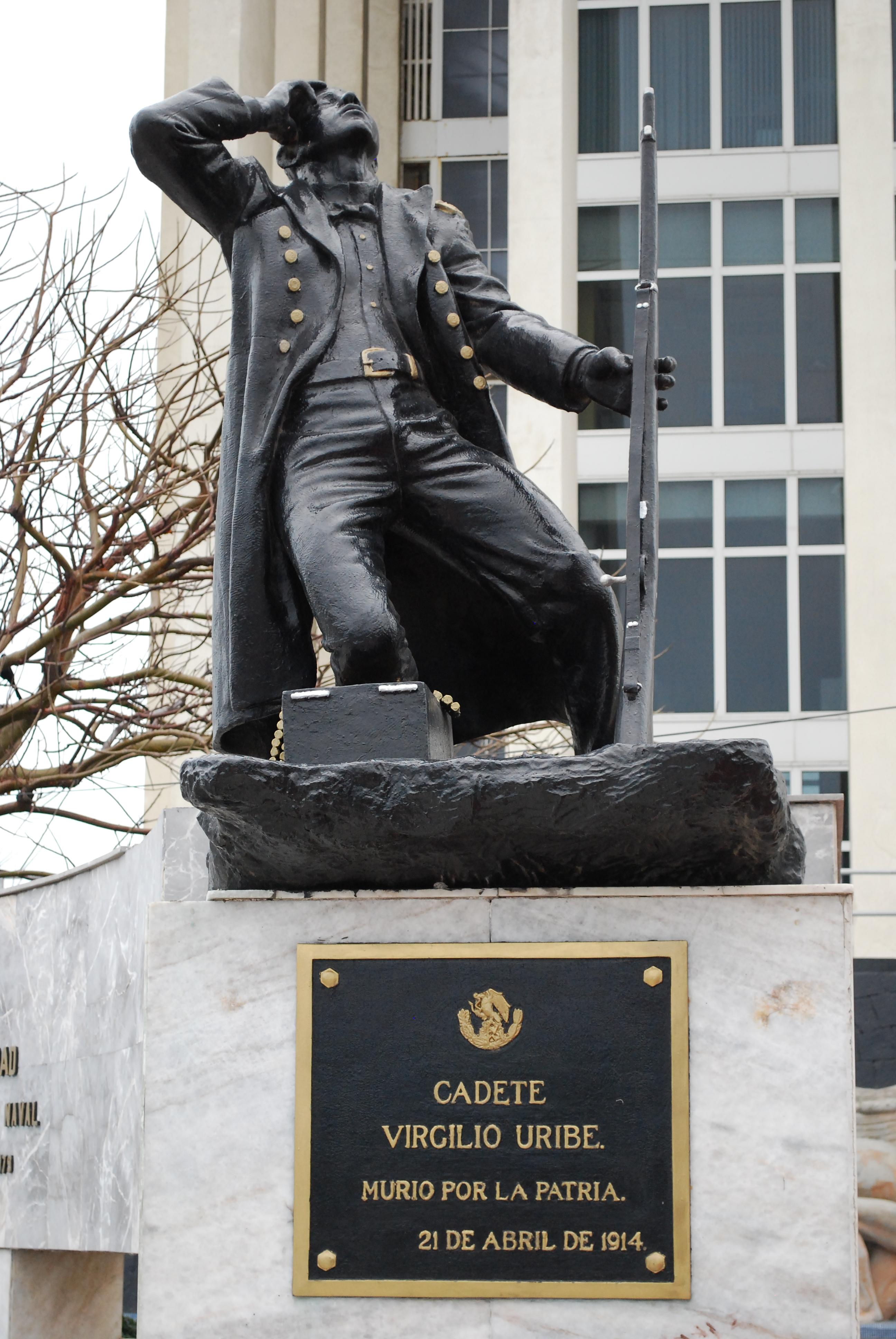 Statue to Virgilio Uribe at the boardwalk of Veracruz Mexico